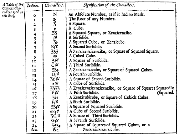 Table of powers, symbols and names or descriptions form 0 to 24 First known use of "Zenzizenzizenzizenzike"